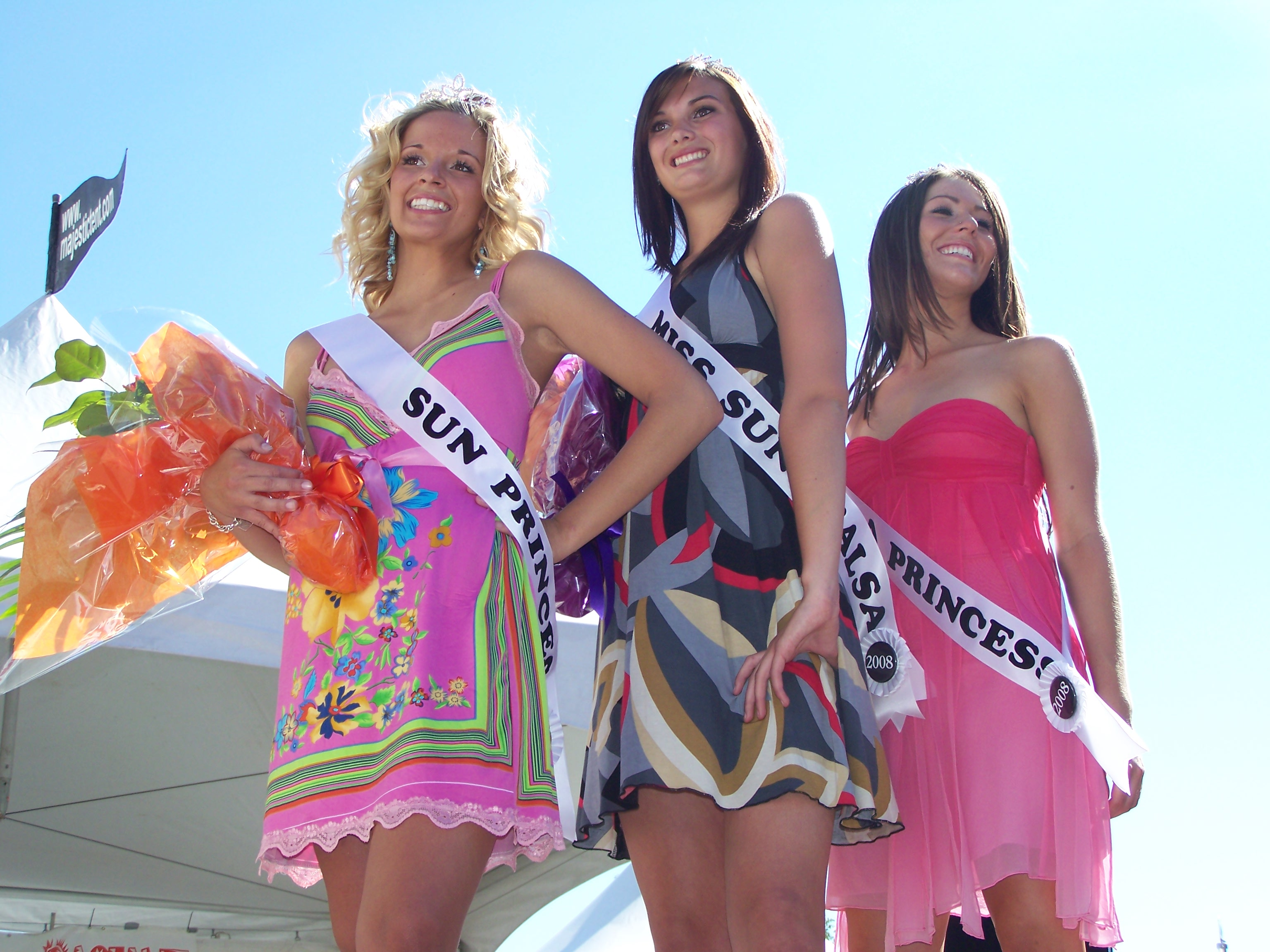 The winning trio at the 2008 Miss Sun and Salsa Pageant. From left to right: Sun Princess Nicole Tomas, Miss Sun and Salsa Hannah Coskey, and Salsa Princess Kelsi Vescarelli. The pageant is part of the Sun and Salsa Festival in the Kensington community of Calgary, Alberta, Canada